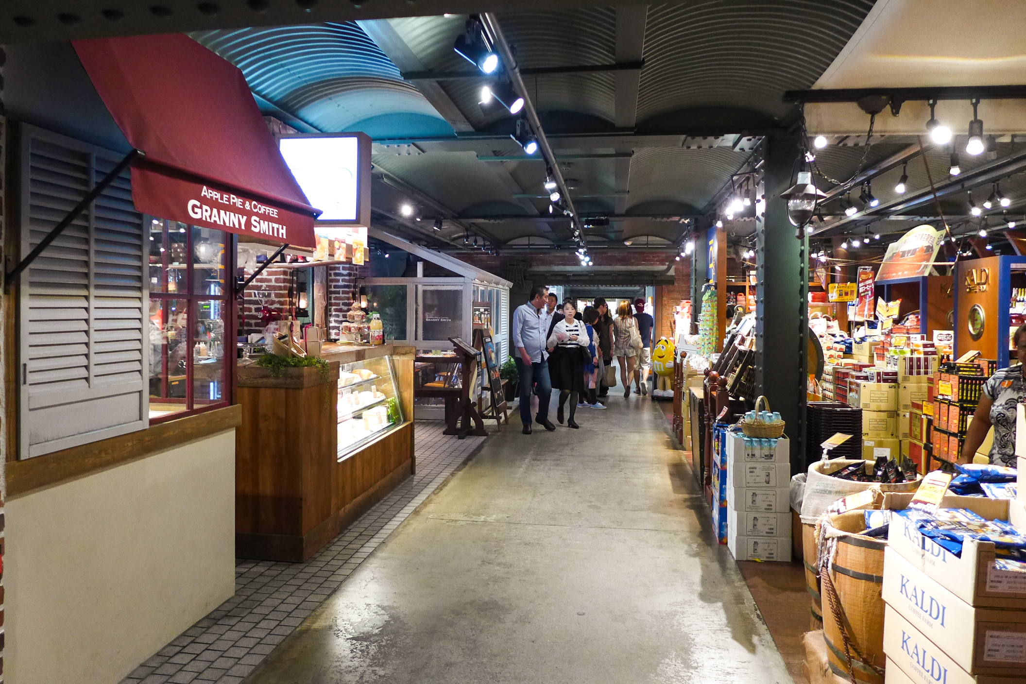 Yokohama Red Brick Warehouse Interior